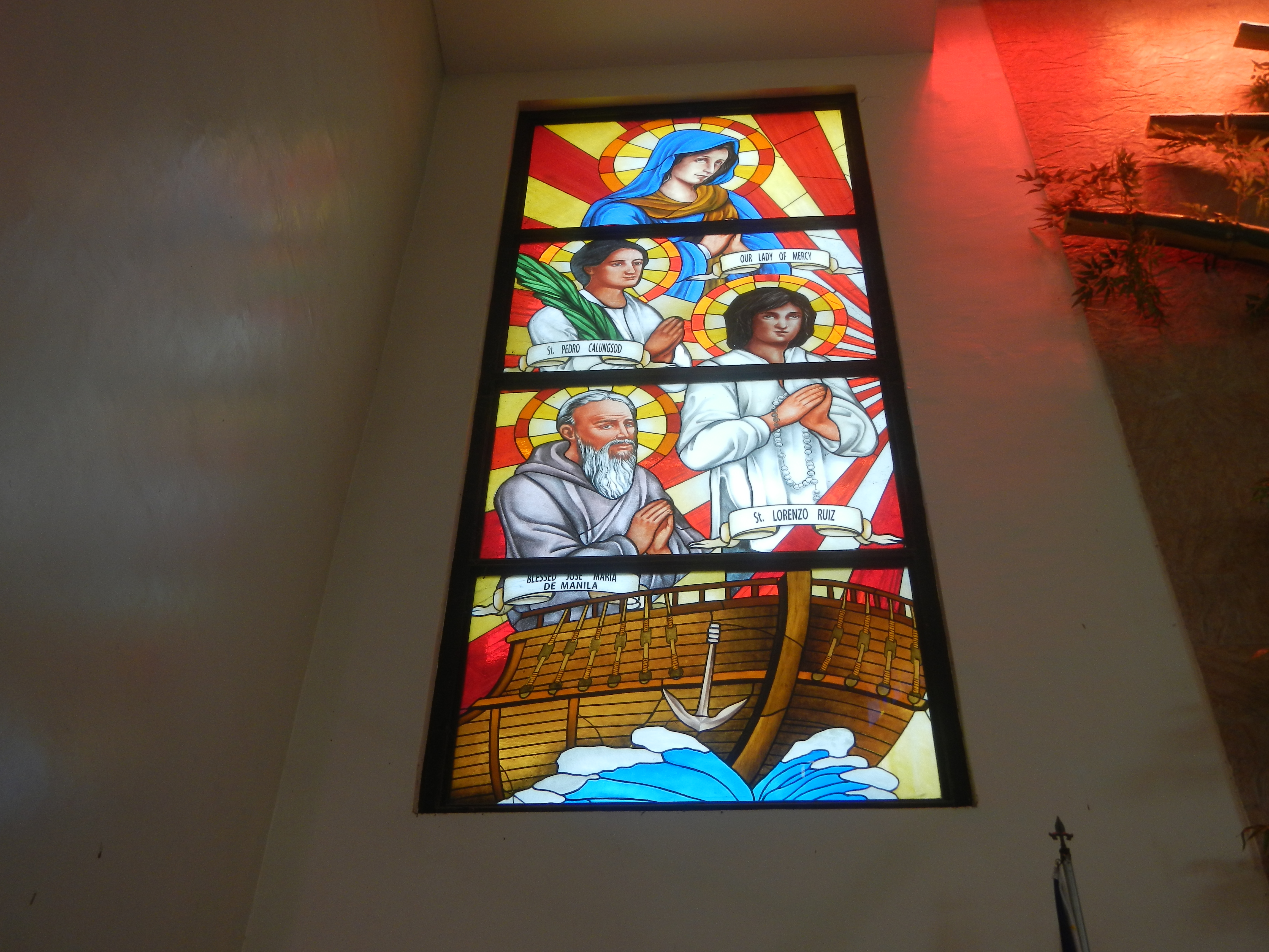 Confirmation in the Santo Cristo and Saint Andrew Kim Taegon Parish Church (Lolomboy, Bocaue, Bulacan) Confirmation (Catholic Church) Confirmation in Shrine of Saint Andrew Kim and Santo Cristo Andrew Kim Taegon Paul Chong Hasang Korean Martyrs in Barangay Lolomboy 14°46'46"N 120°56'14"E beside Bunlo, Bocaue, Bulacan along MacArthur Highway or Manila North Road) MacArthur Highway (Bocaue, Bulacan section) or Manila North Road on another side (Note: Judge Florentino Floro, the owner, to repeat, Donor Florentino Floro of all these photos hereby donate gratuitously, freely and unconditionally all these photos to and for Wikimedia Commons, exclusively, for public use of the public domain, and again without any condition whatsoever).